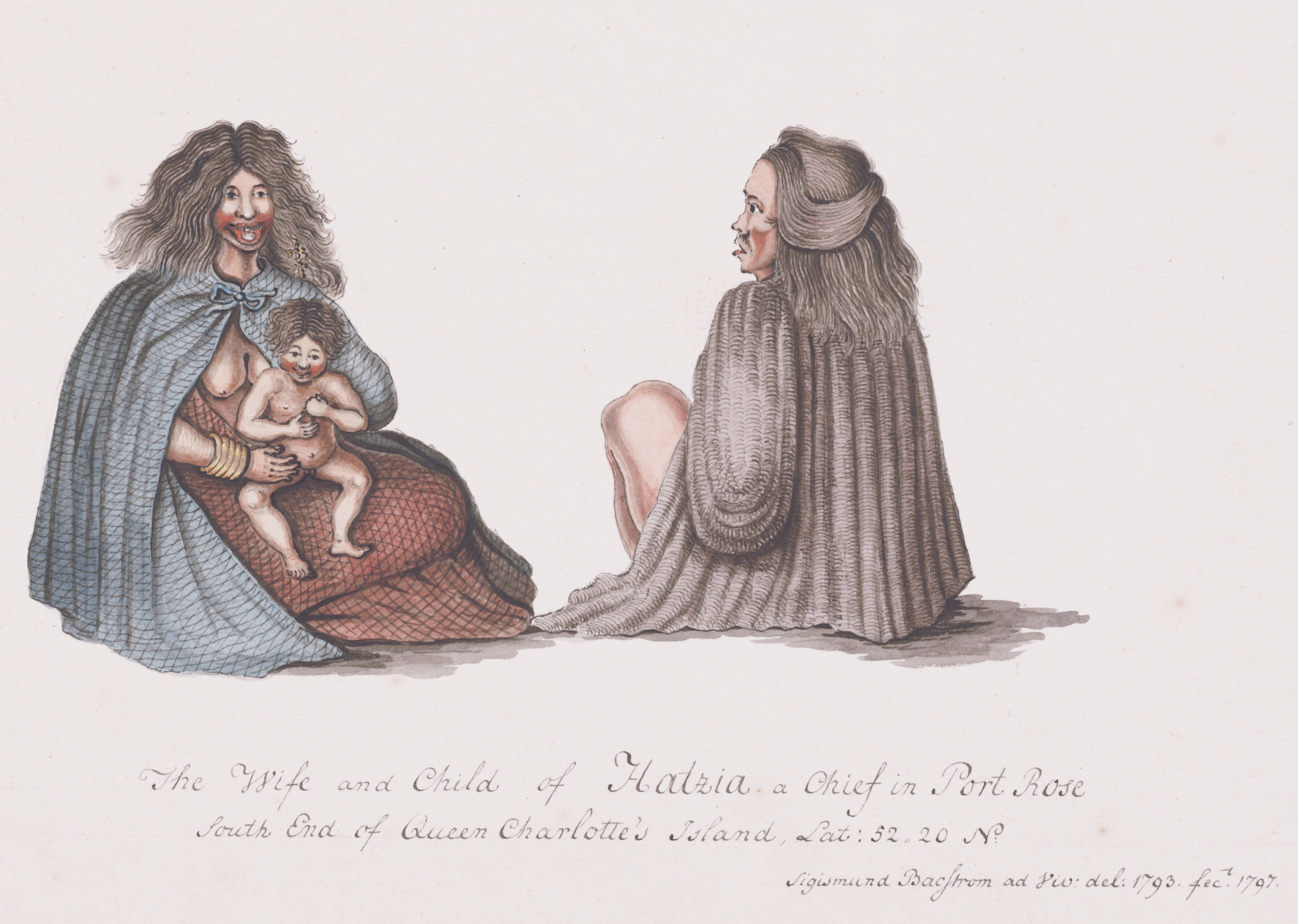 Haida noble woman and daughter circa 1793